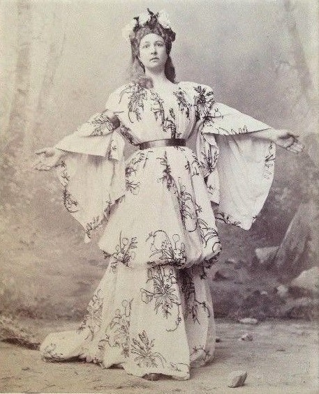 Photograph of American opera singer Marion Weed as Freia in Das Rheingold, Bayreuth Festival, 1899